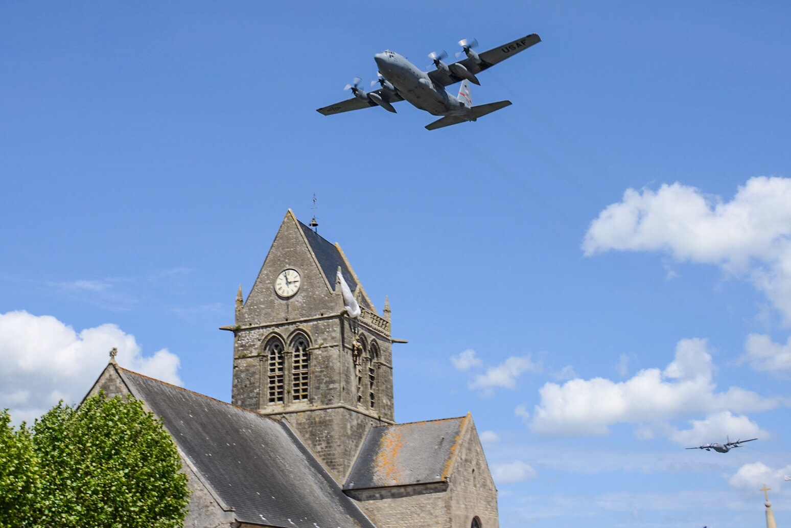 A C-130H Hercules aircraft from the 165th Airlift Wing, Georgia Air National Guard, flies over the church square in Sainte Mère Eglise, France, as part of a four aircraft formation that marked the start of the 70th Anniversary D-Day ceremony at the Signal Monument in the first French town liberated by U.S. Soldiers of the Army's 82d Airborne Division. (U.S. Air National Guard photo by Master Sgt. Charles Delano/released)